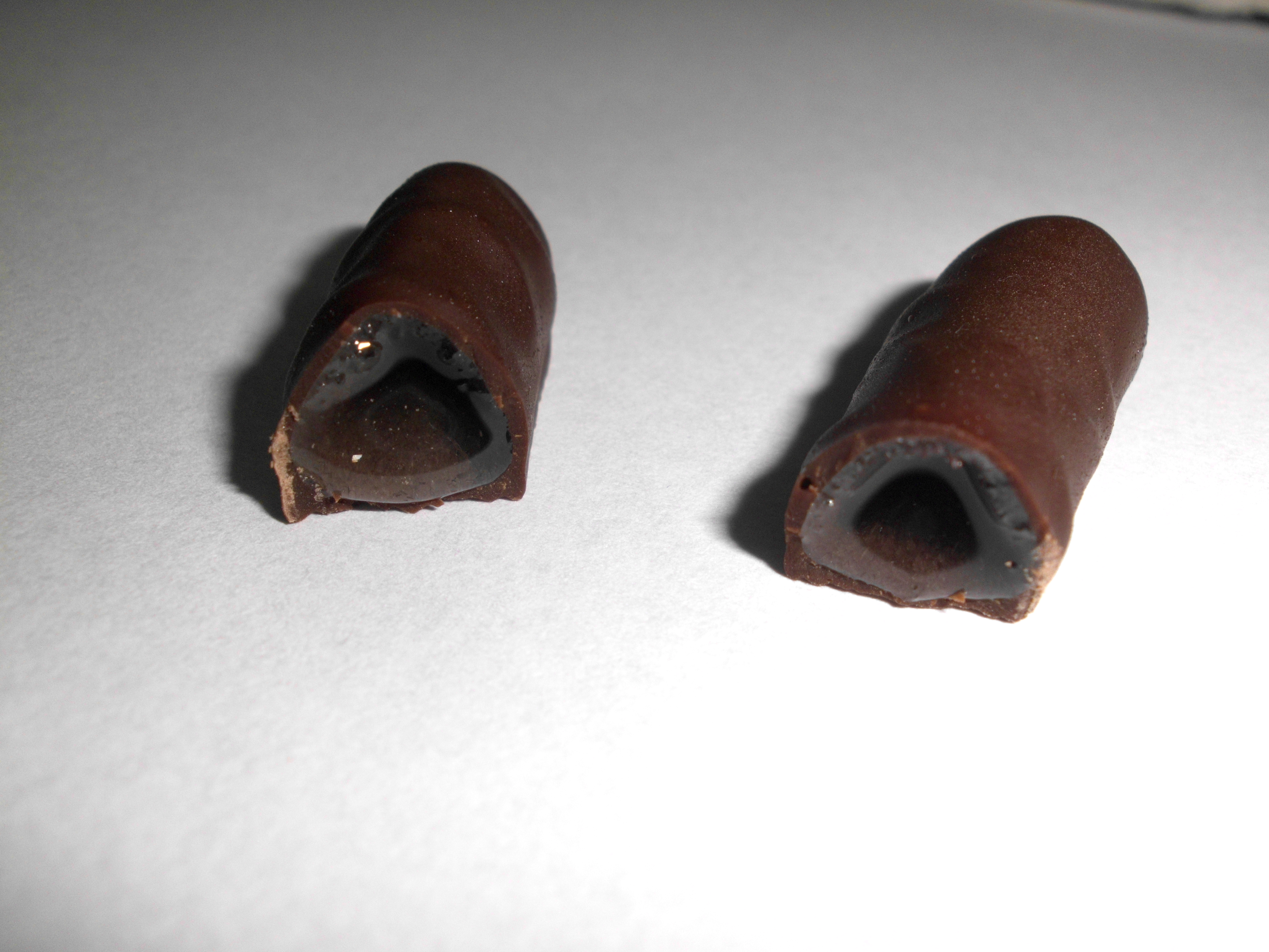 broken-up refreshment stick